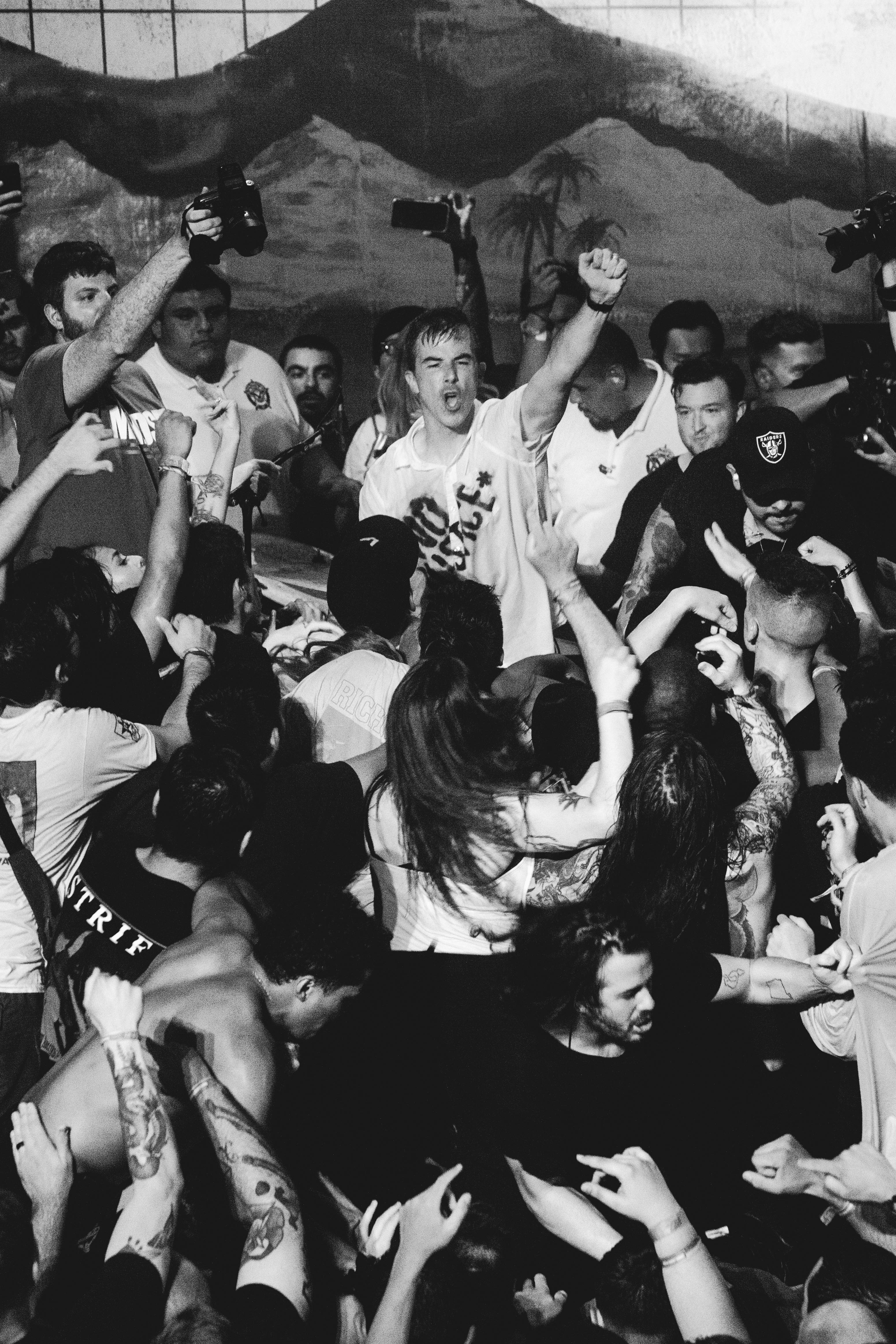 July 12th, 2019. Los Angeles, CA @ The Belasco Theater